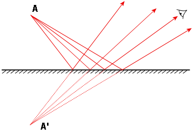 Rays reflected by a plane mirror.